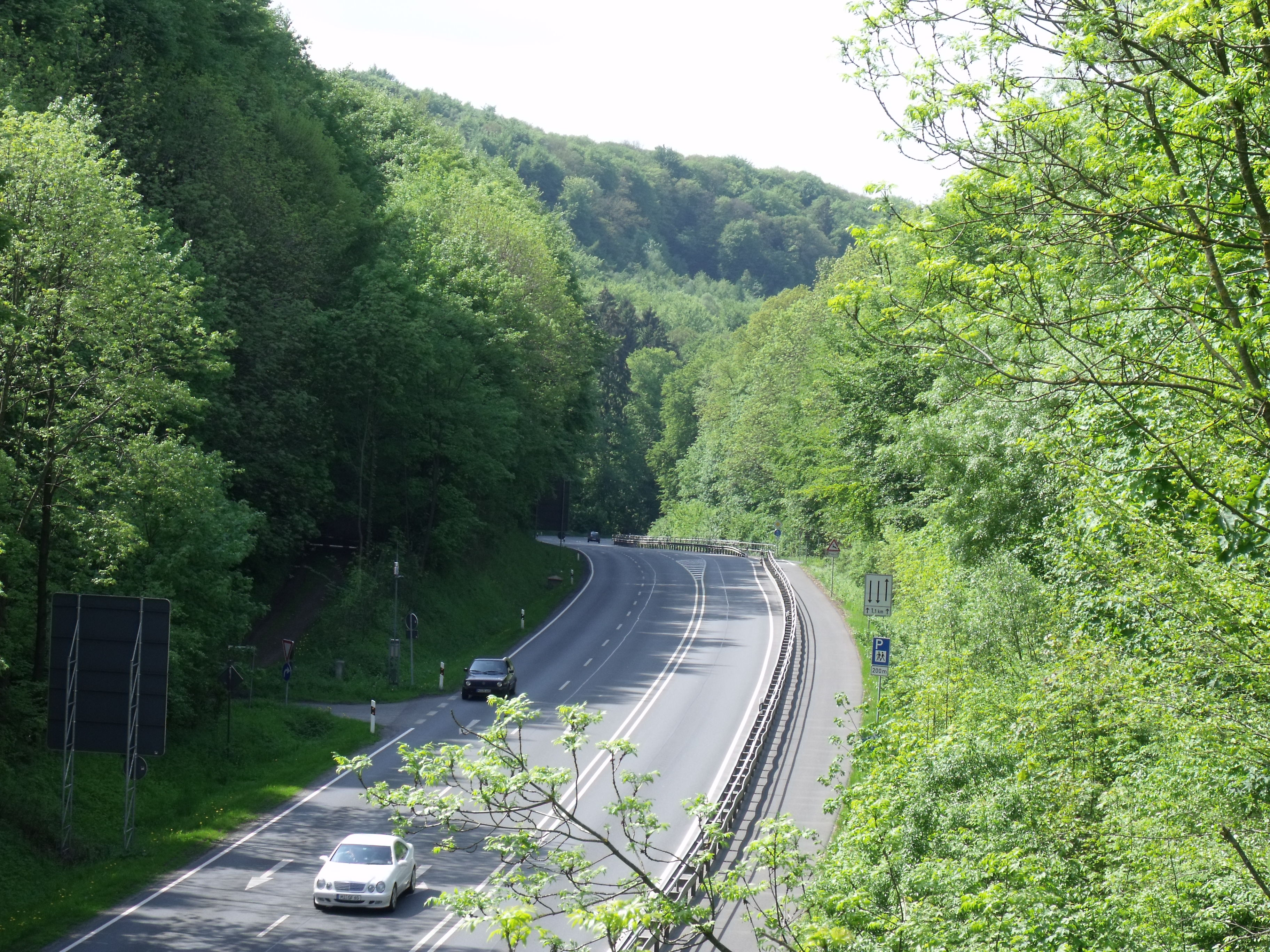 The pass of the B239 in the Wiehen-Hills